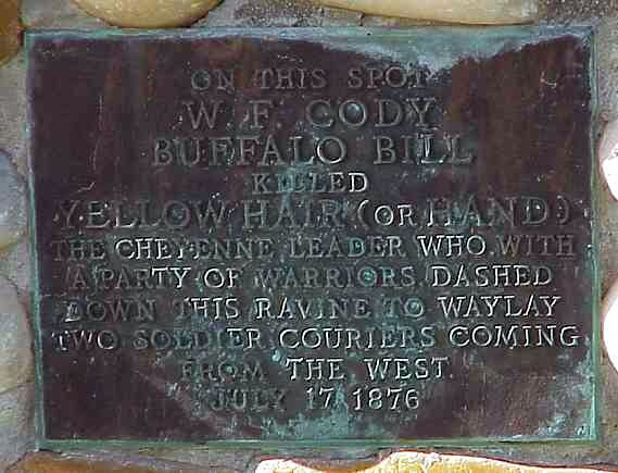 Photo of the mark at Warbonnnet Memorial site in Nebraska.